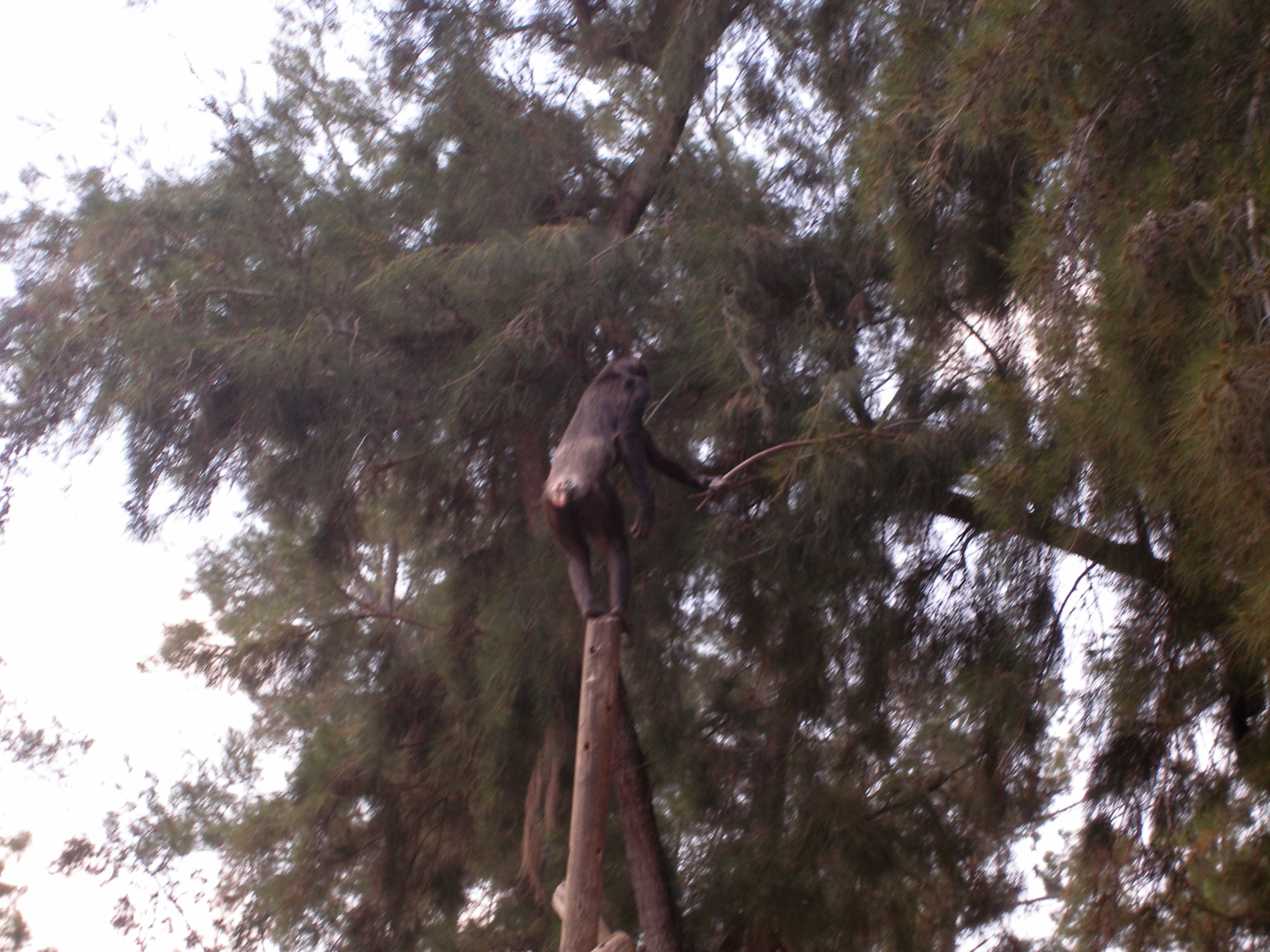 Common Chimpanzee. Taken in the Zoological Center of Tel Aviv-Ramat Gan, Israel